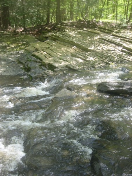 Wickecheoke Creek is a tributary of the Delaware River